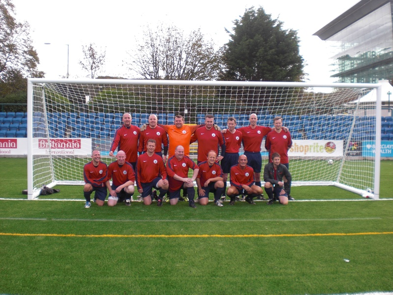 Douglas and District FC first ever veterans league match.